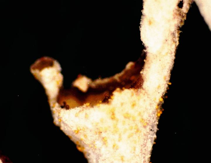 Cladonia cenotea (Ach.) Schaer., 1823 (photograph of a herbarium specimen taken through a dissecting microscope (x40) showing a cup with the margin curled inward) Growing on stumps in mixed forest along Caribou Plain Trail, at Fundy National Park, New Brunswick, Canada; collected and identified by A. Norden and B. Norden (No. L-12, 6 Jun 1974); specimen is now in the Lichen Herbarium of the New York Botanical Garden.